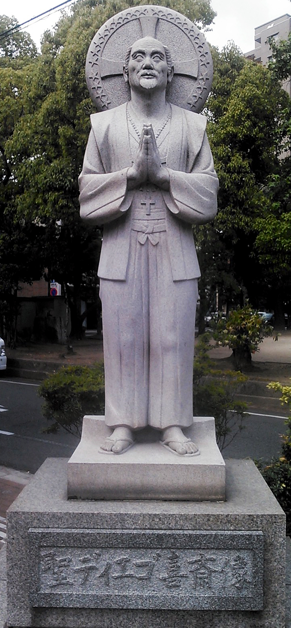 The Statue of St. James (Diogo) Kisai (Japanese name "Ichikawa Kizaemon") , at Okayama Catholic Church, Tenjincho Kita-ku, Okayama-city, Okayama-pref,Japan. (photograph, 2015,05,31)